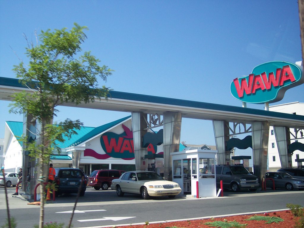 Wawa in Wildwood, New Jersey - by LancerEvolution